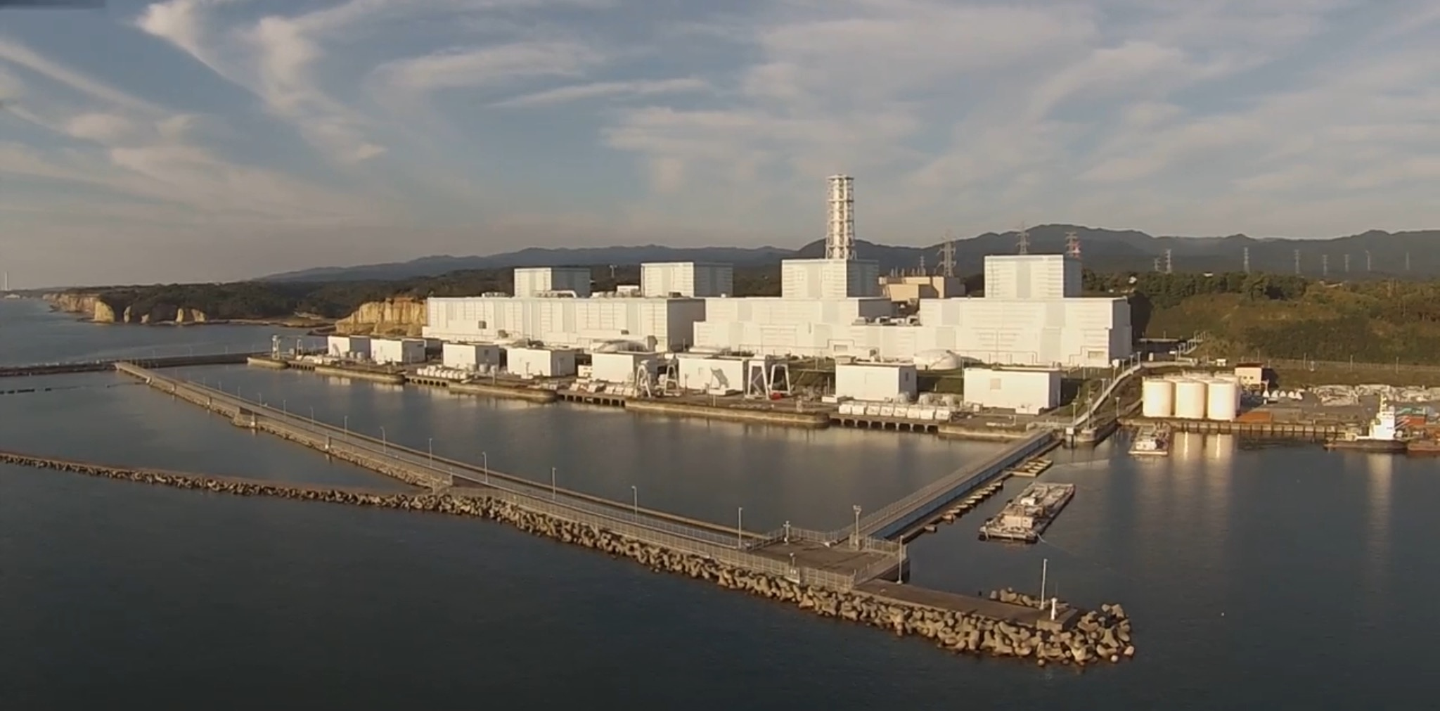 Still frame taken from aerial video of the Tepco 2F nuclear generating station showing its artificial harbor, turbine and reactor buildings. Source video was shot with a GoPro Hero3 carried by a 3DR Iris+ quadcopter.